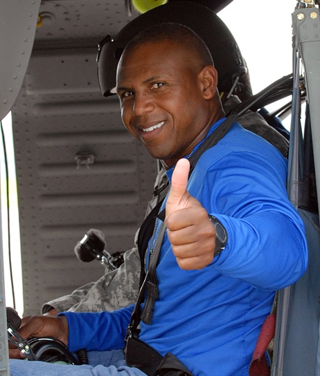 "University of Kentucky Head Football Coach Joker Phillips gives a thumbs up as he prepares for take off at Wendell H. Ford Regional Training Center in Greenville, KY, August 3. Coach Phillips and his staff visited the 149th Maneuver and Enhancement Brigade during training to show their appreciation for the National Guard, complimenting UK's Operation Win."